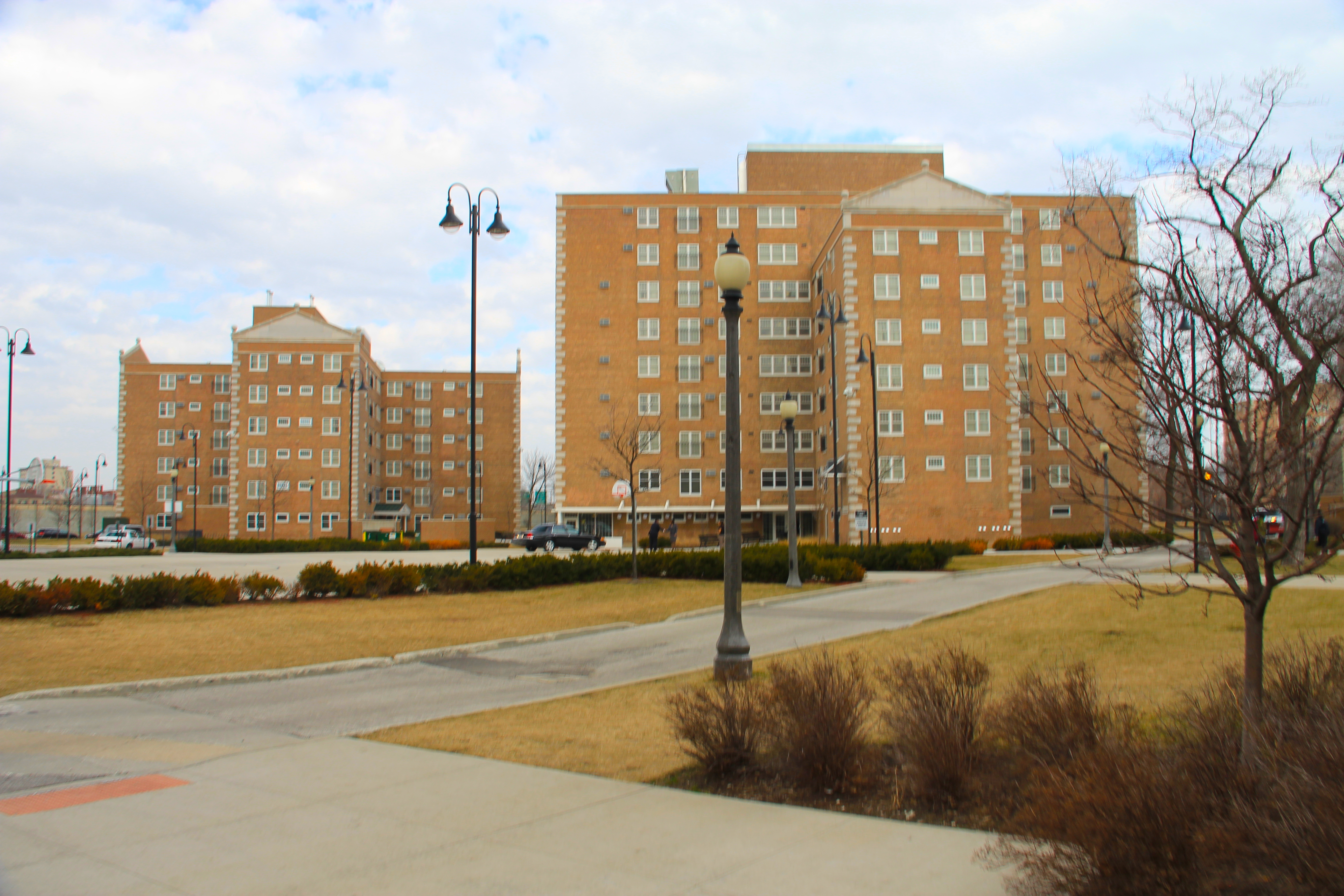 Dearborn Homes public housing after 2012 remodel.